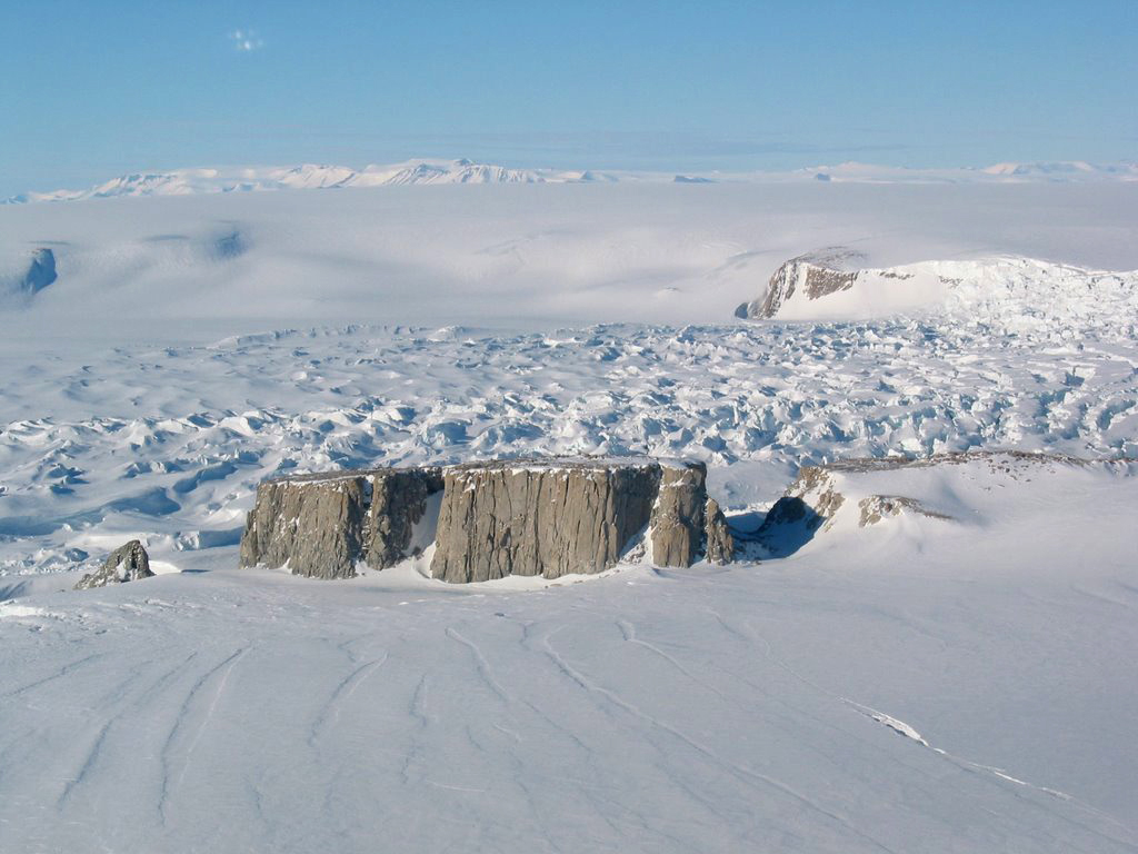 North face of Starr Nunatak, on the north side of the mouth of Harbord Glacier, on the coast of Victoria Land, Antarctica.